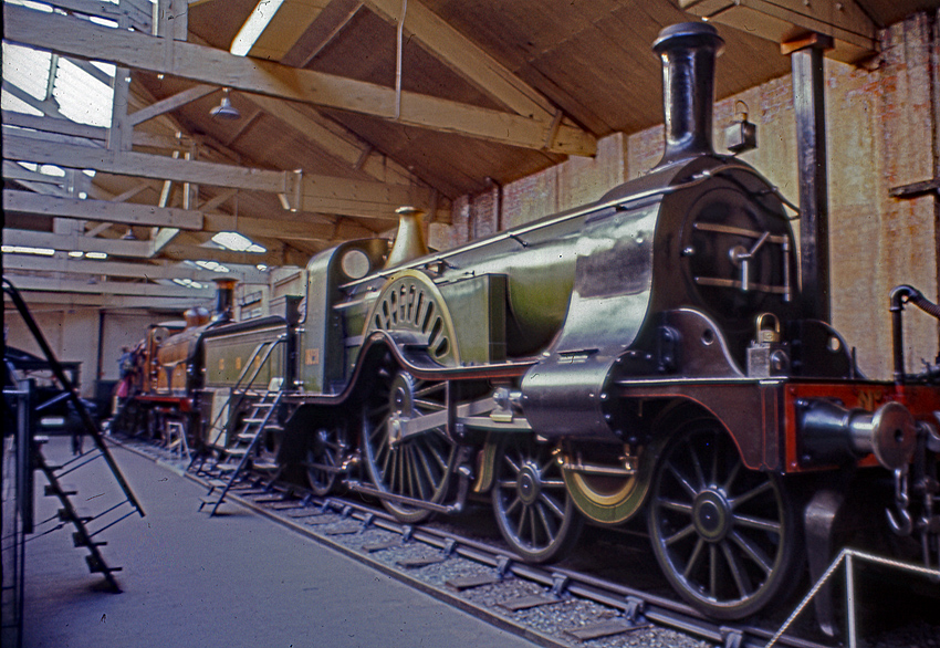 GNR Stirling Single No 1 in the old LNER Museum at York shortly before it closed. Scanned from a Kodachrome 35mm slide.